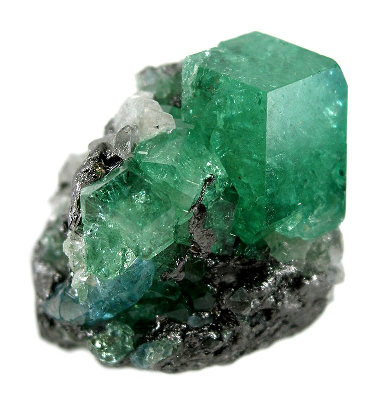 Graphite, Grossular, Apatite Locality: Merelani Hills (Mererani), Lelatema Mts, Arusha Region, Tanzania (Locality at ) Size: thumbnail, 2.5 x 1.9 x 1.7 cm Tsavorite with Graphite and Apatite This thumbnail of tsavorite garnet not only is gemmy and a lovely emerald green color, but it is also on real matrix of silvery black graphite and a minor blue apatite - a most unusual association. The largest tsavorite crystal is doubly terminated and measures 1.1 cm in length. Overall, it weighs 39.84 carats.